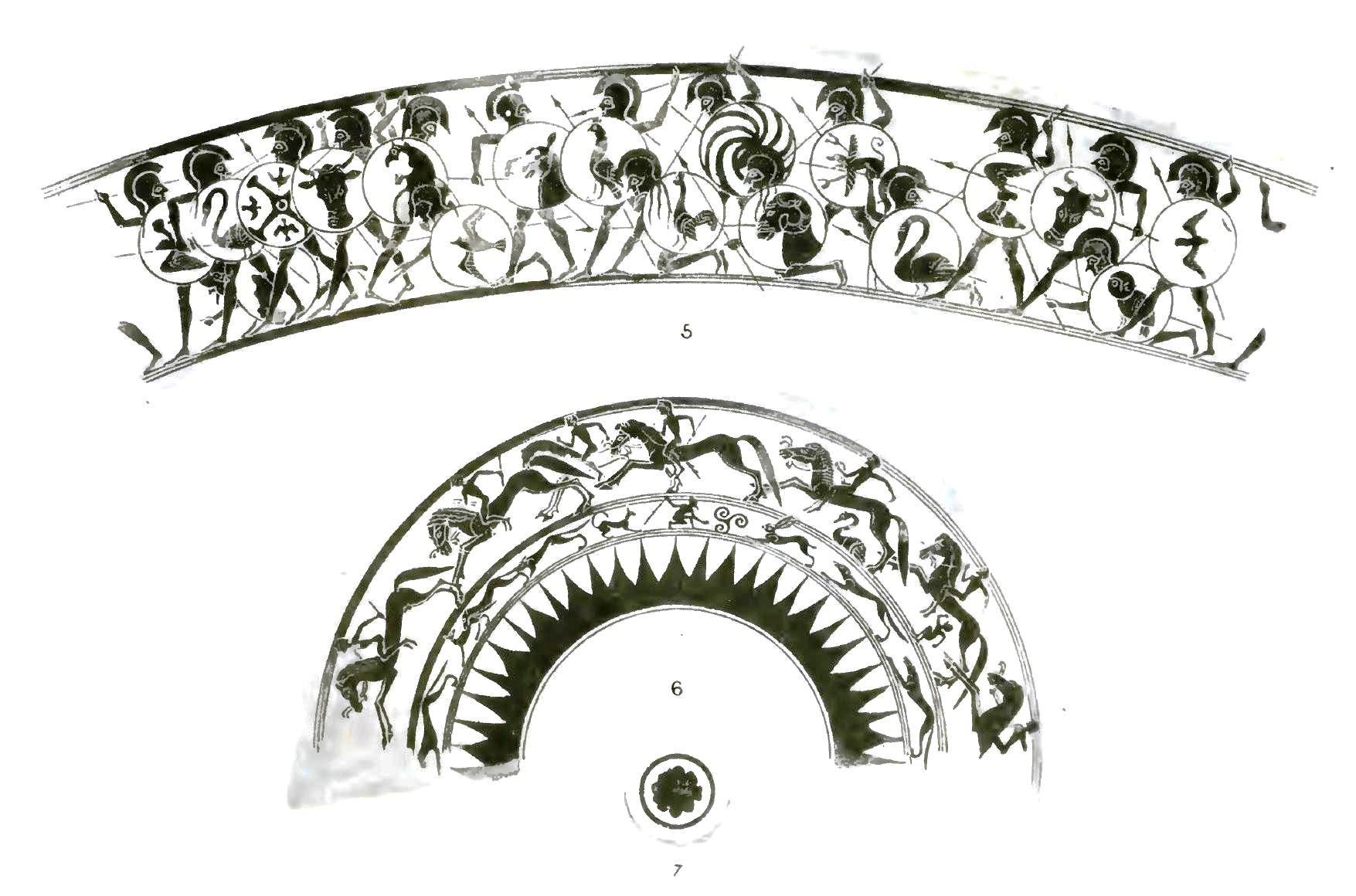 Perfume bottle (aryballos) with lion-head mouth, attributed to the Chigi Painter; British Museum GR 1889.4-18.1